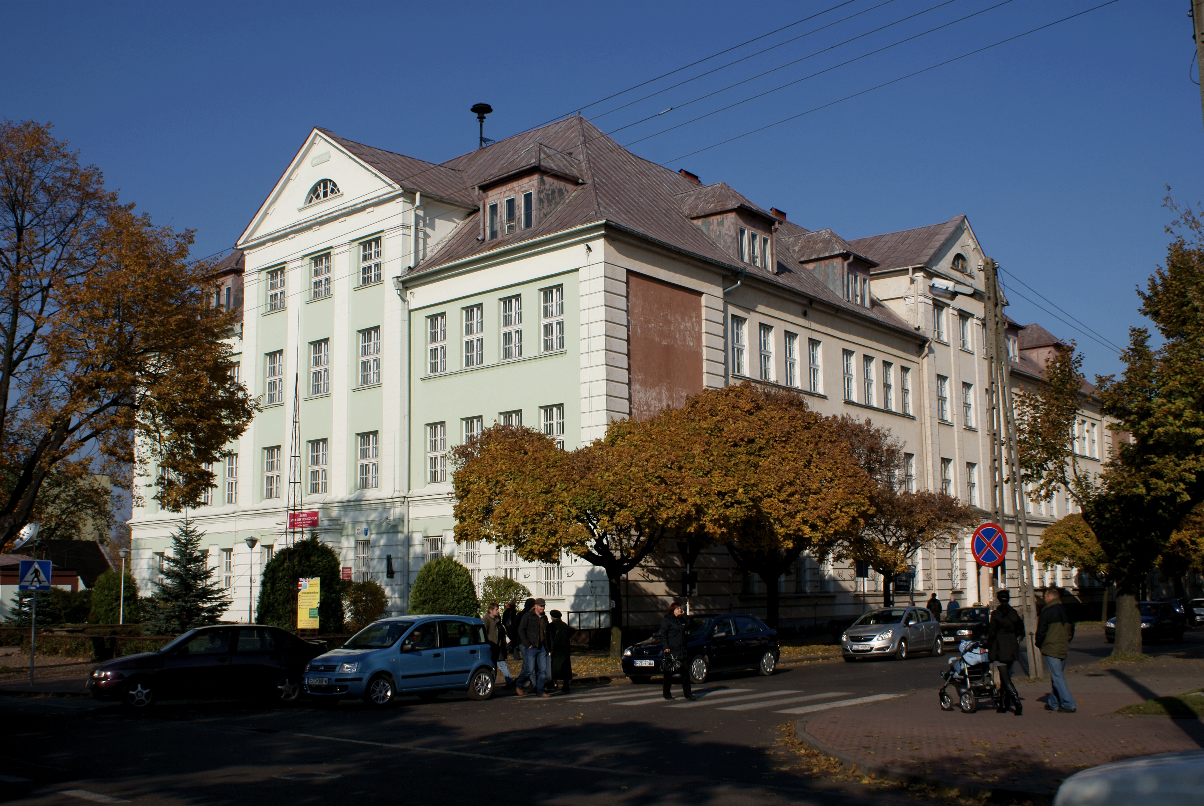 Stanisław Staszic Technical High School of Electronics in Zduńska Wola